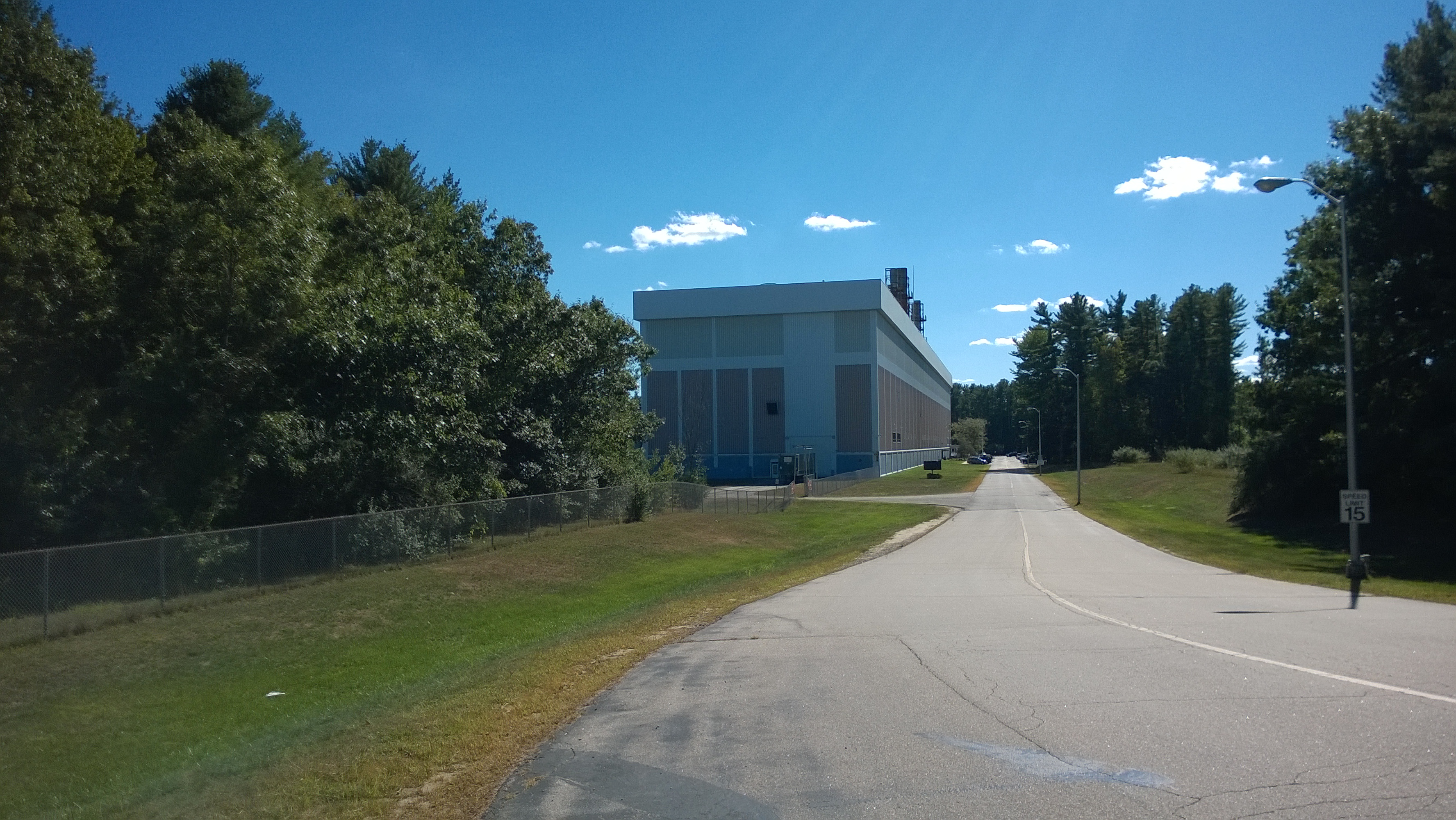 Saint-Gobain Performance Plastics, 701 Daniel Webster Hwy, Merrimack, NH 03054